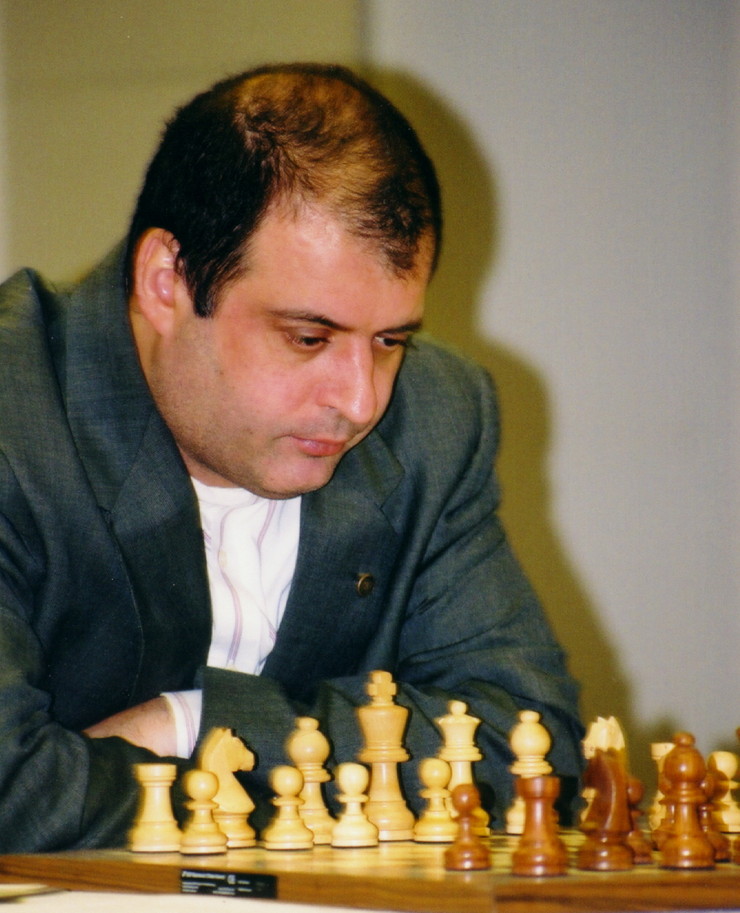 John Fedorowicz at the 2002 U.S. Chess Championships in Seattle, Washington.